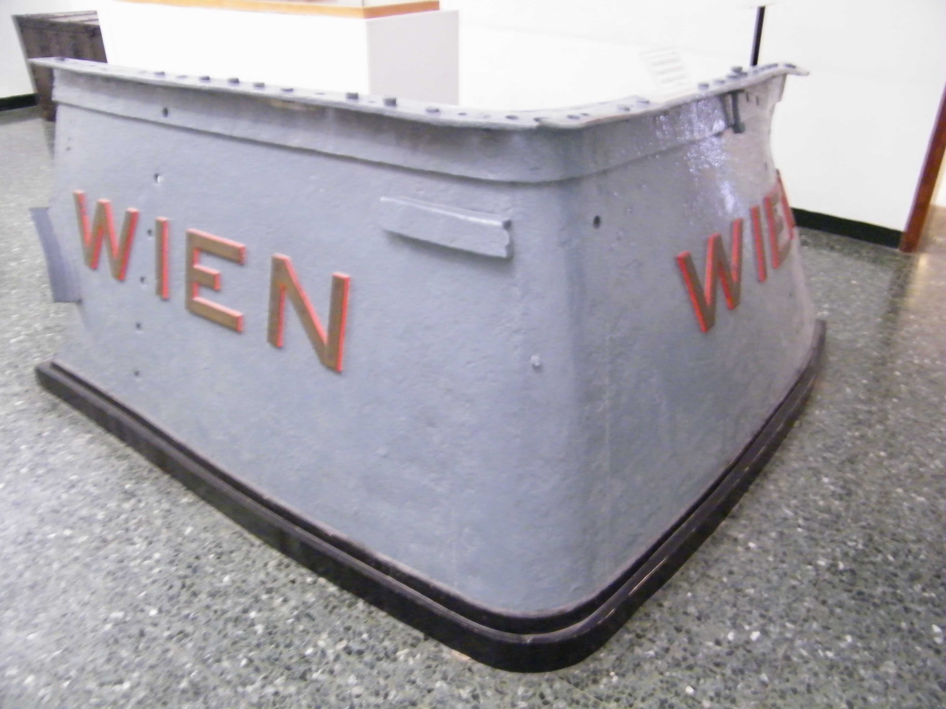 Stern fragment of the Austrian battleship "Wien"